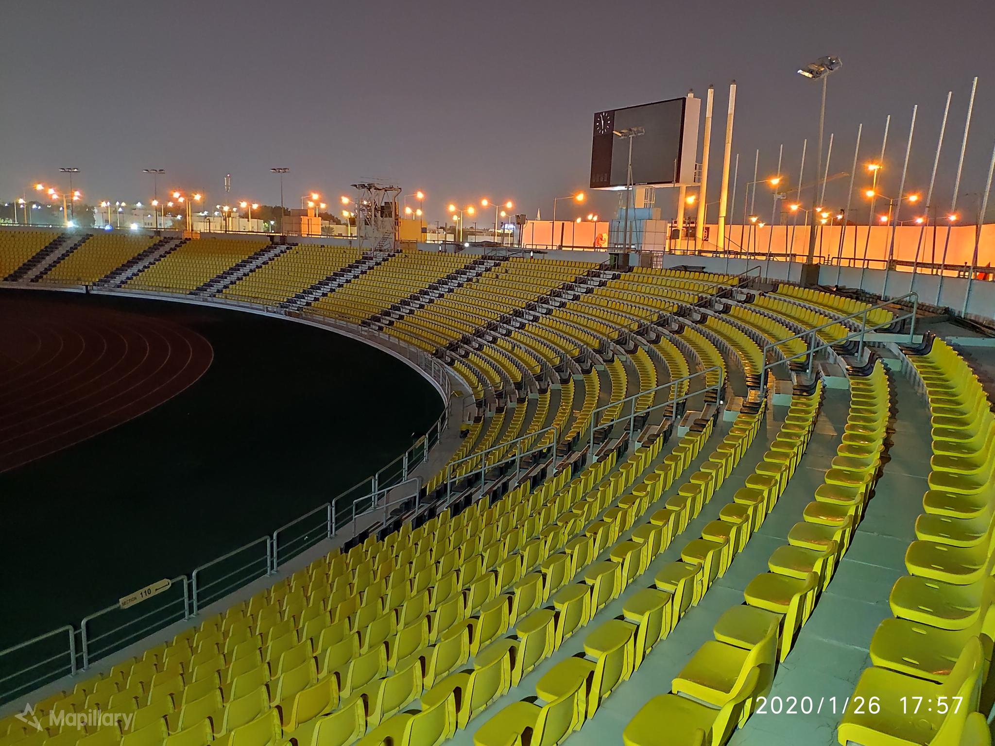 Interior view of Suheim Bin Hamad Stadium in Qatar in 2020.